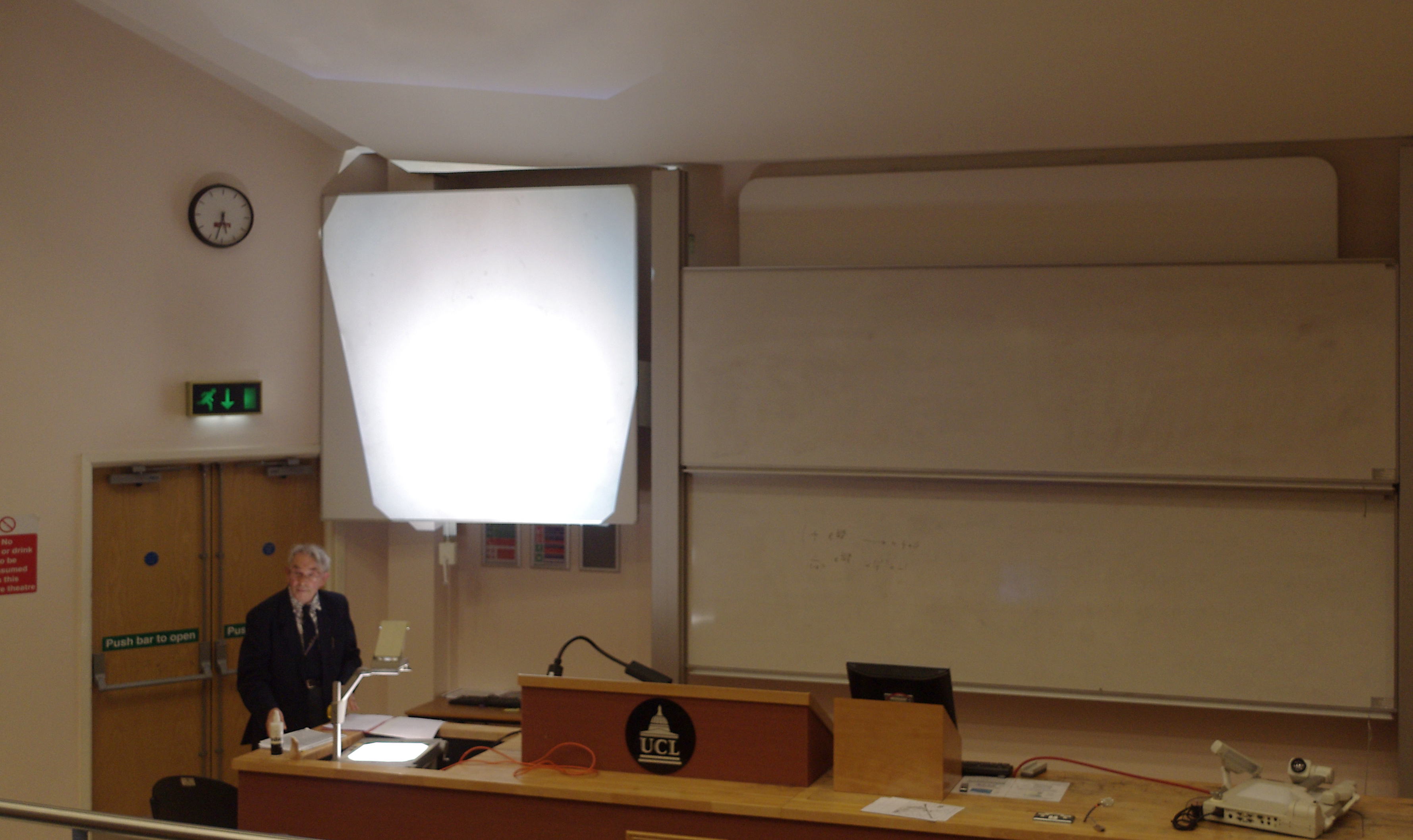 Professor Walter Hayman of Imperial College London makes his presentation "The radial growth of bounded and other functions" at the One Day Function Theory Meeting in the Harrey Massey lecture theatre at University College London.